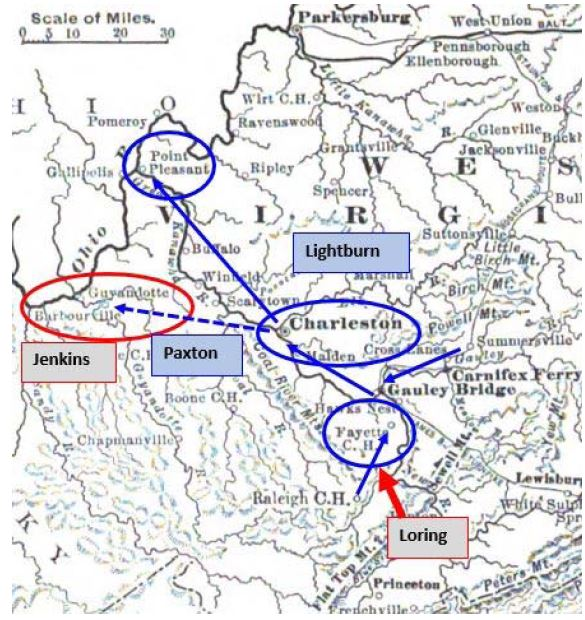 Map shows the Union and Confederate troop movements during September 1862 in the southwest portion of what became West Virginia.